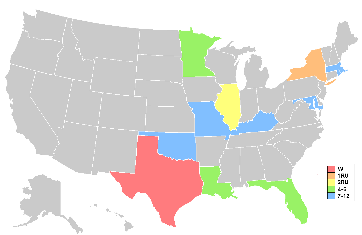 Map showing placements at the Miss USA 1995 pageant. Key on graphic shows colour coding for break down of placements.